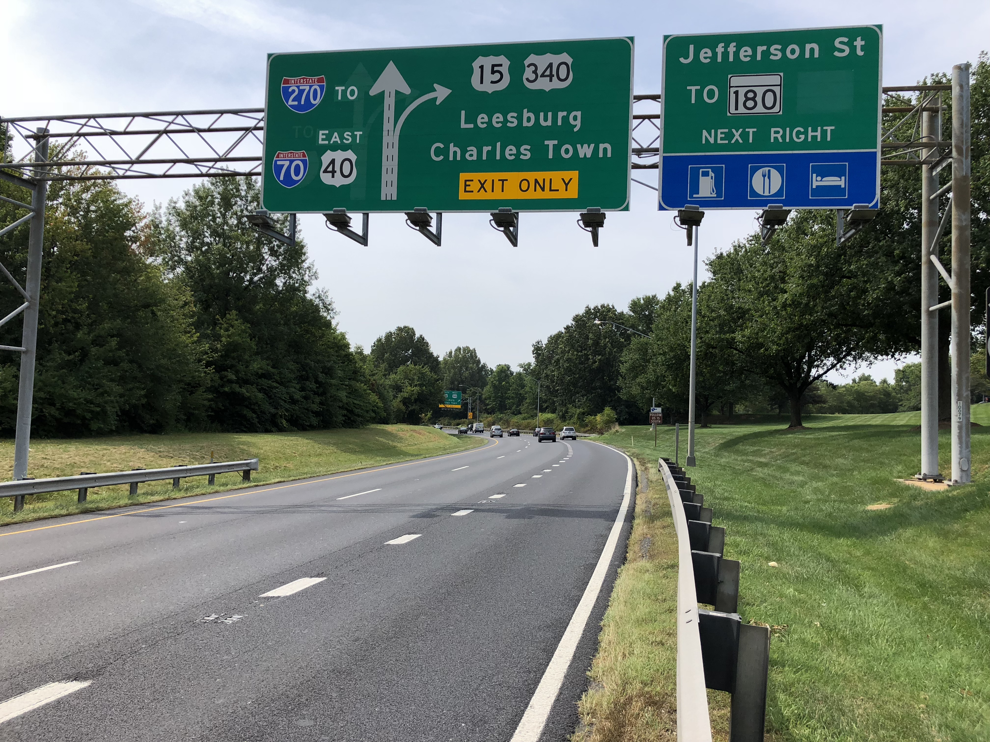 View south along U.S. Route 15 and east along U.S. Route 40 (Frederick Freeway) between Patrick Street and Jefferson Street in Frederick, Frederick County, Maryland